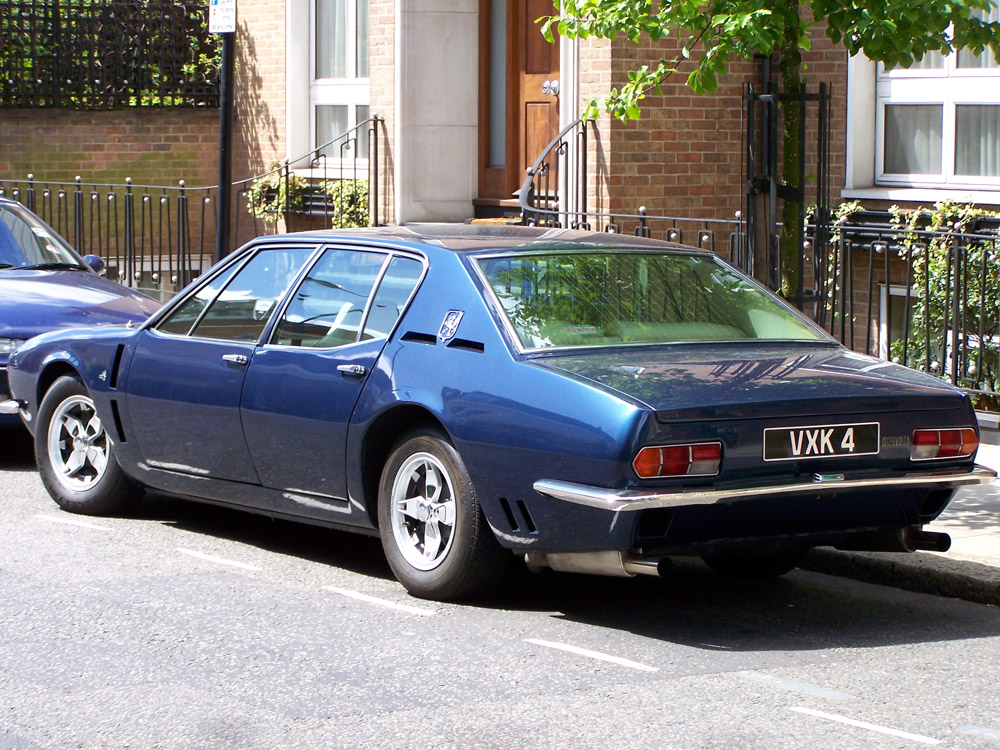 Blue Iso Fidia on London street. One of twelve produced with right-hand steering.